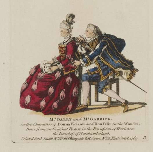 Anne Street Barry and Garrick-victoria-and-albert-museum-london based on a picture owned by the Duchess of Northumberland. Guess date as 2 jan